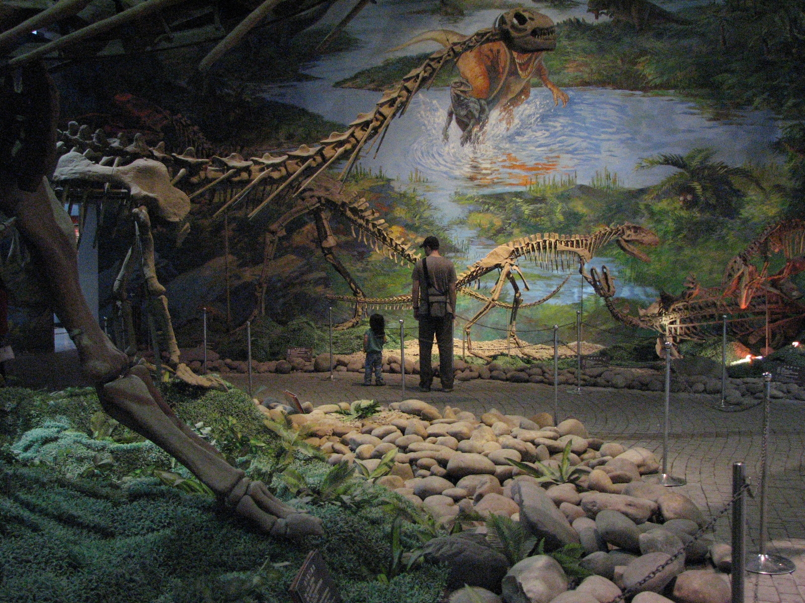 The Dinosaur Gallery at the Zigong Dinosaur Museum is a place of wonder for kids. I took this photo in 2006. (Art Yang, 2006). In the very top left of the foreground you can see the cervical ribs and forelimb of a Omeisaurus mount. Behind the Omeisaurus is a visible torso, neck and skull of a smaller sauropod. The dinosaurs fighting over a thrashing Chunkingosaurus on the left side are Sinraptor. The large theropod devouring an ornithopod behind the Omeisaurus is another Sinraptor. Attribution required for use.